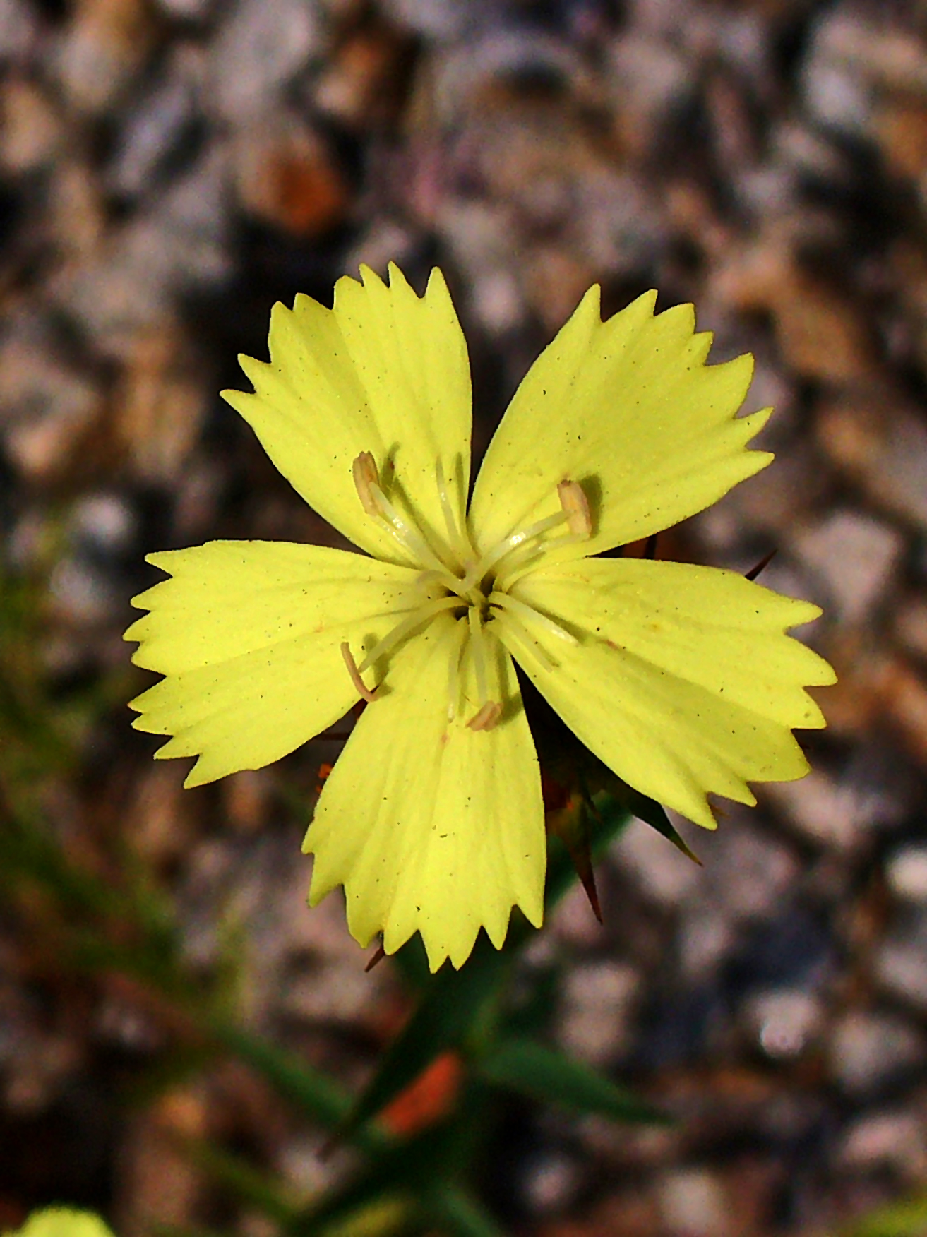 Dianthus knappii, Caryophyllaceae, Hairy Garden Pink, habitus; Karlsruhe, Germany.